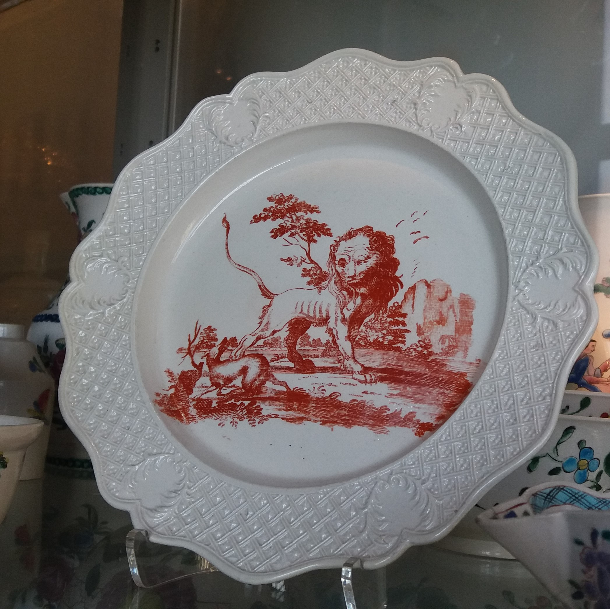 Staffordshire plate c. 1760, transfer-printed. Maker unknown.